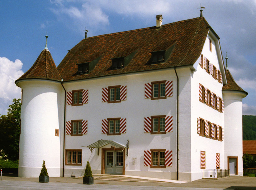 Schloss Aesch BL von Westen